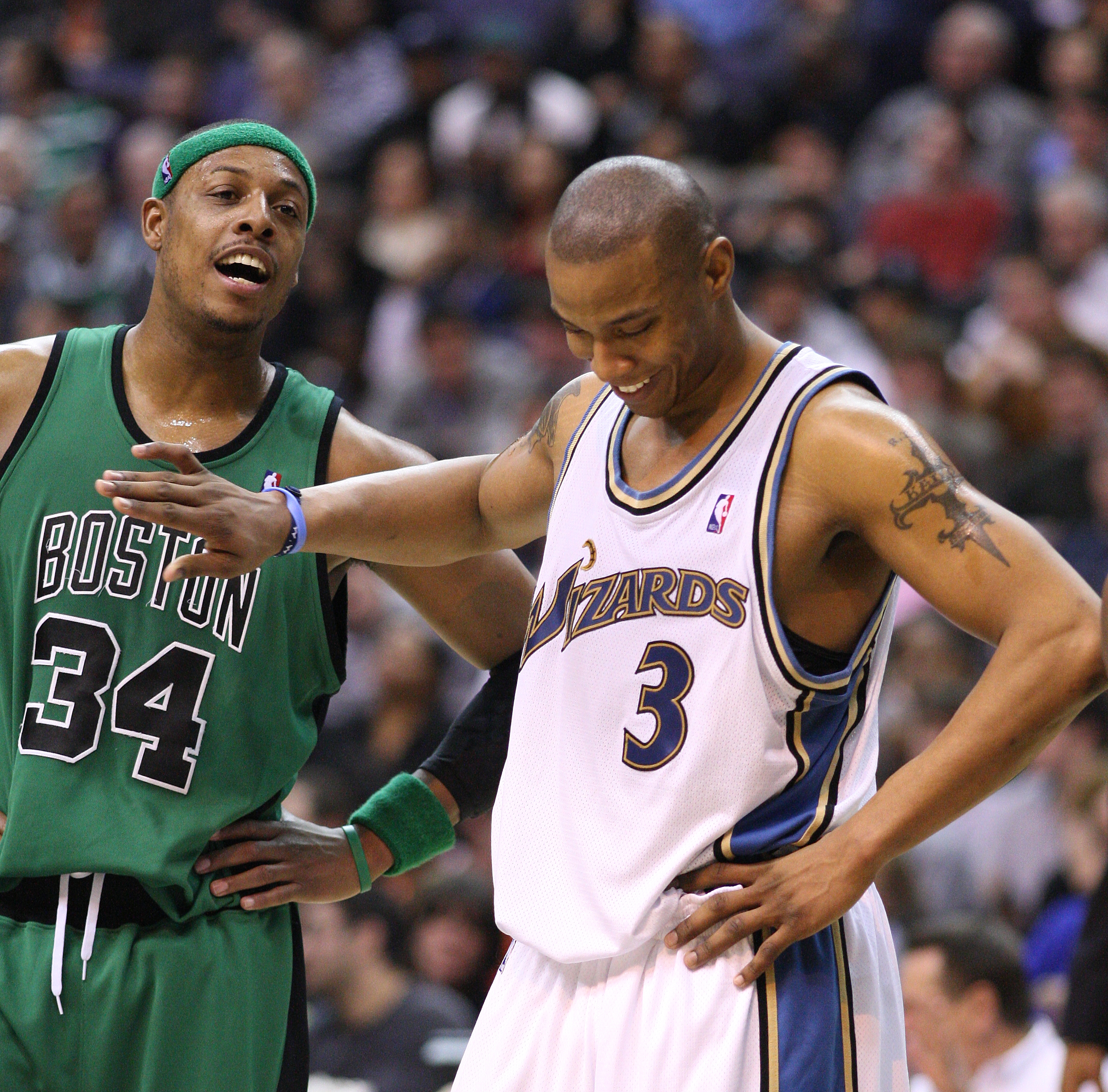 Paul Pierce and Caron Butler